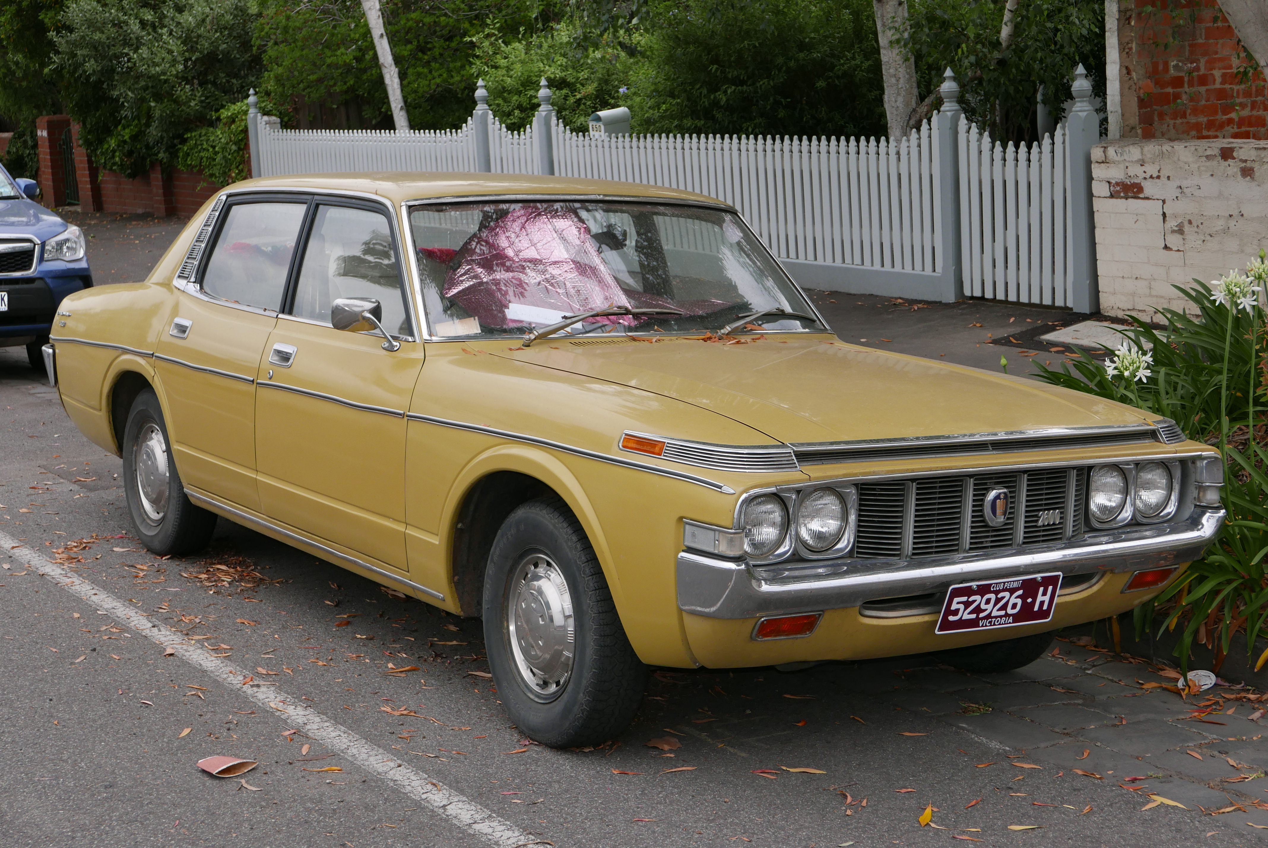 1973–1975 Toyota Crown (MS65) SE sedan. Photographed in Princes Hill, Victoria, Australia.